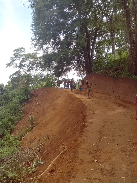 MGNREGA workers return after day's work on road formation in Ghantacherra, Ambassa block, Dhalai, Tripura